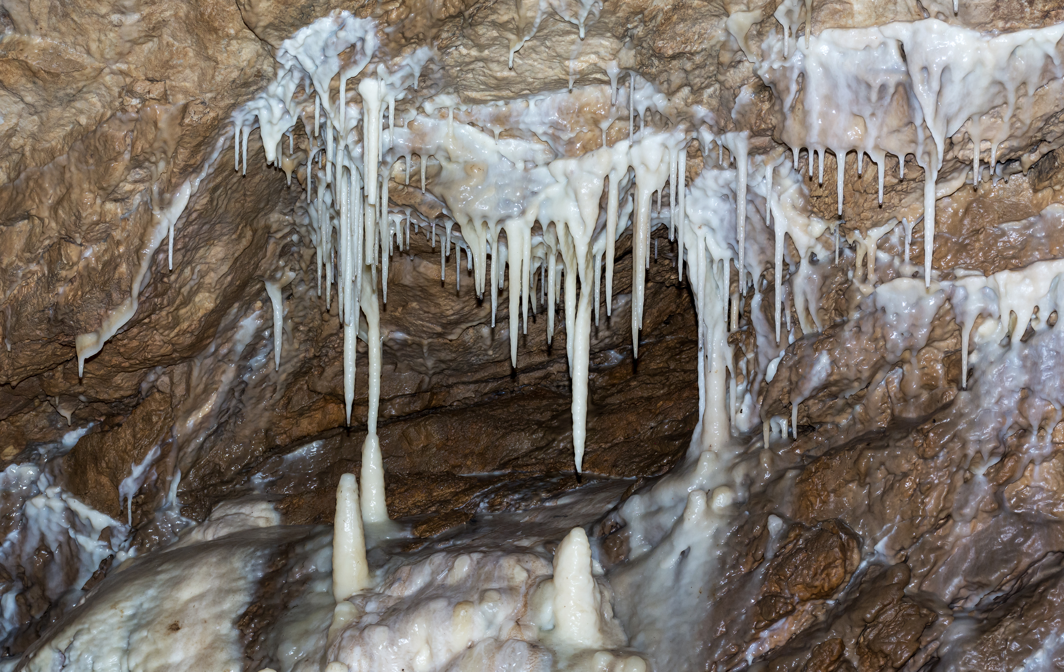 Bear Cave in Kletno (Lower Silesia, Poland), speleothems This is a photography of Natura 2000 protected area with ID PLH020016